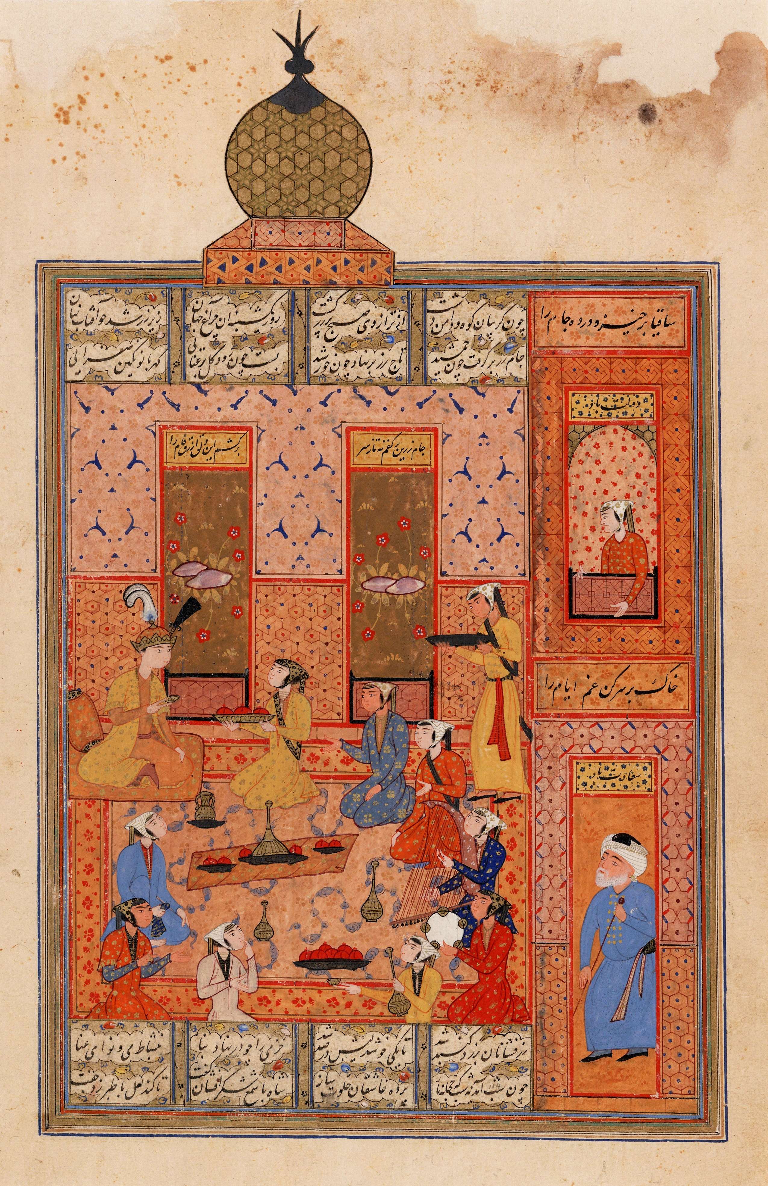 This text describes an episode from the "Haft Paykar" (Seven Thrones) of Nizami (d. 614/1218), the fourth book from his "Khamsah" (Quintet). In this romantic allegory of love and frustration, the Sassanian ruler Bahram Gur (r. 420-438) visits seven pavilions on each of the seven days of the week.